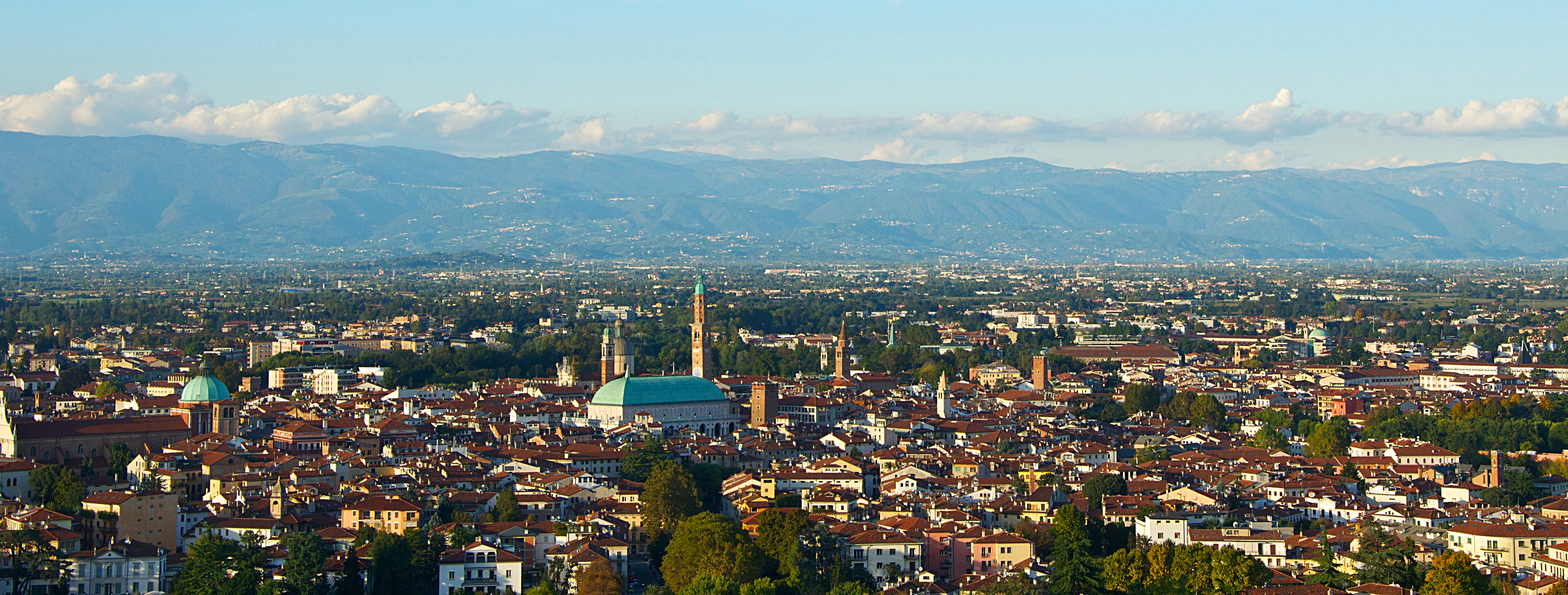 View over Vicenza taken from Piazzale della Vittoria.